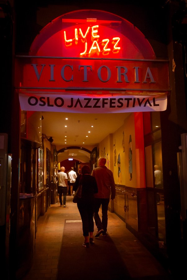 The enterance for VIctoria Teater in Oslo. This is the location of the National Jazz Scene and a venue during Oslo Jazzfestival.